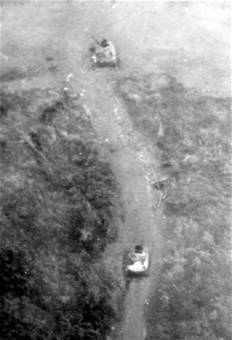 This photograph showed two knocked-out PT-76 tanks in Lang Vei, taking by U.S. Air Force reconnaissance aircraft in February 1968.